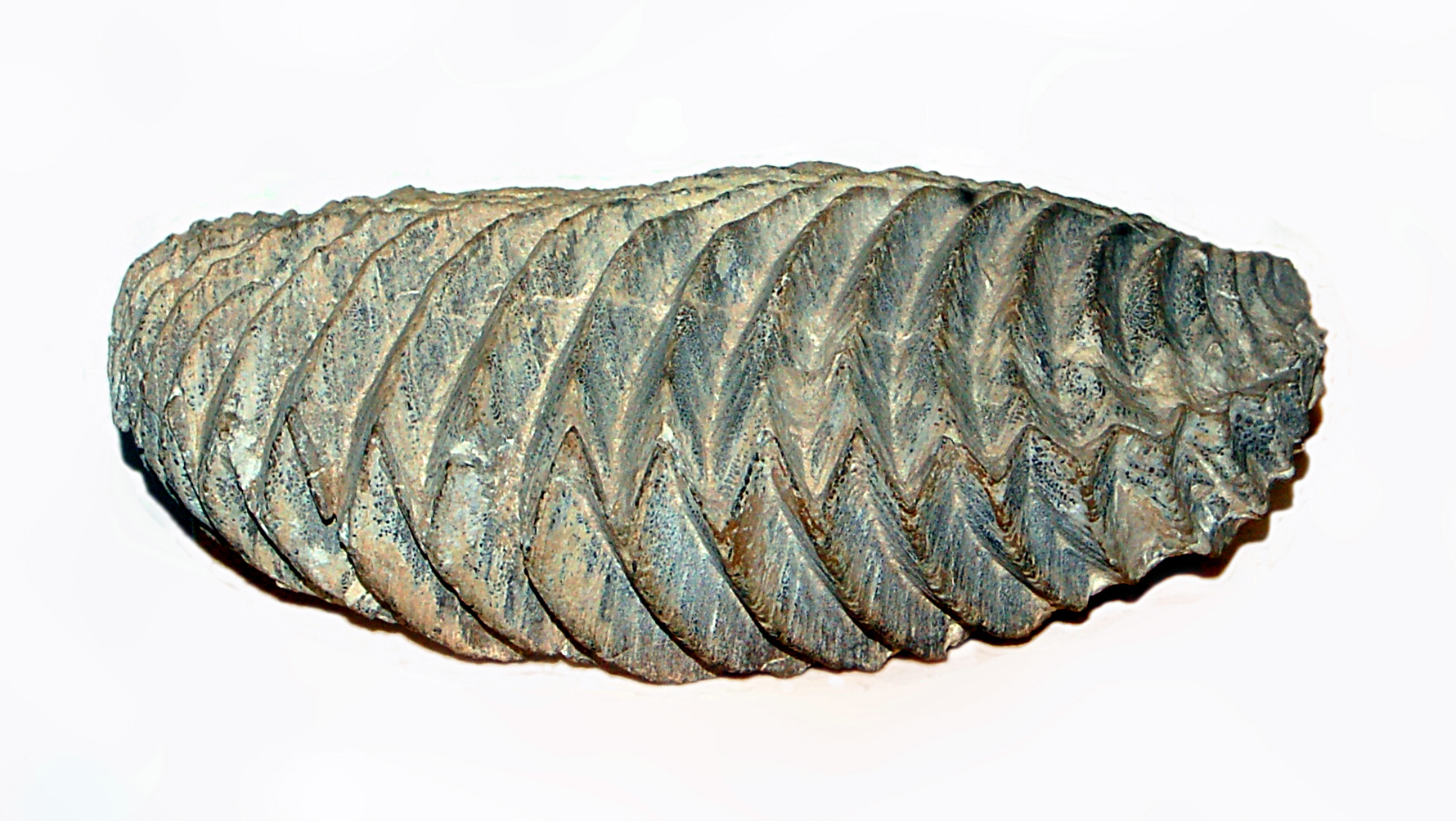 Fossil Lopha sp. from Upper Cretaceous, France